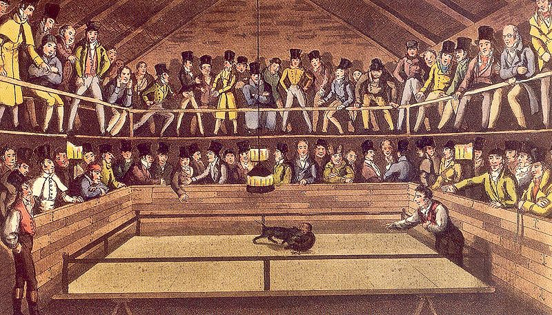 The Westminster-Pit: "A Turn-up between a Dog and Jacco Macacco, the Fighting Monkey"